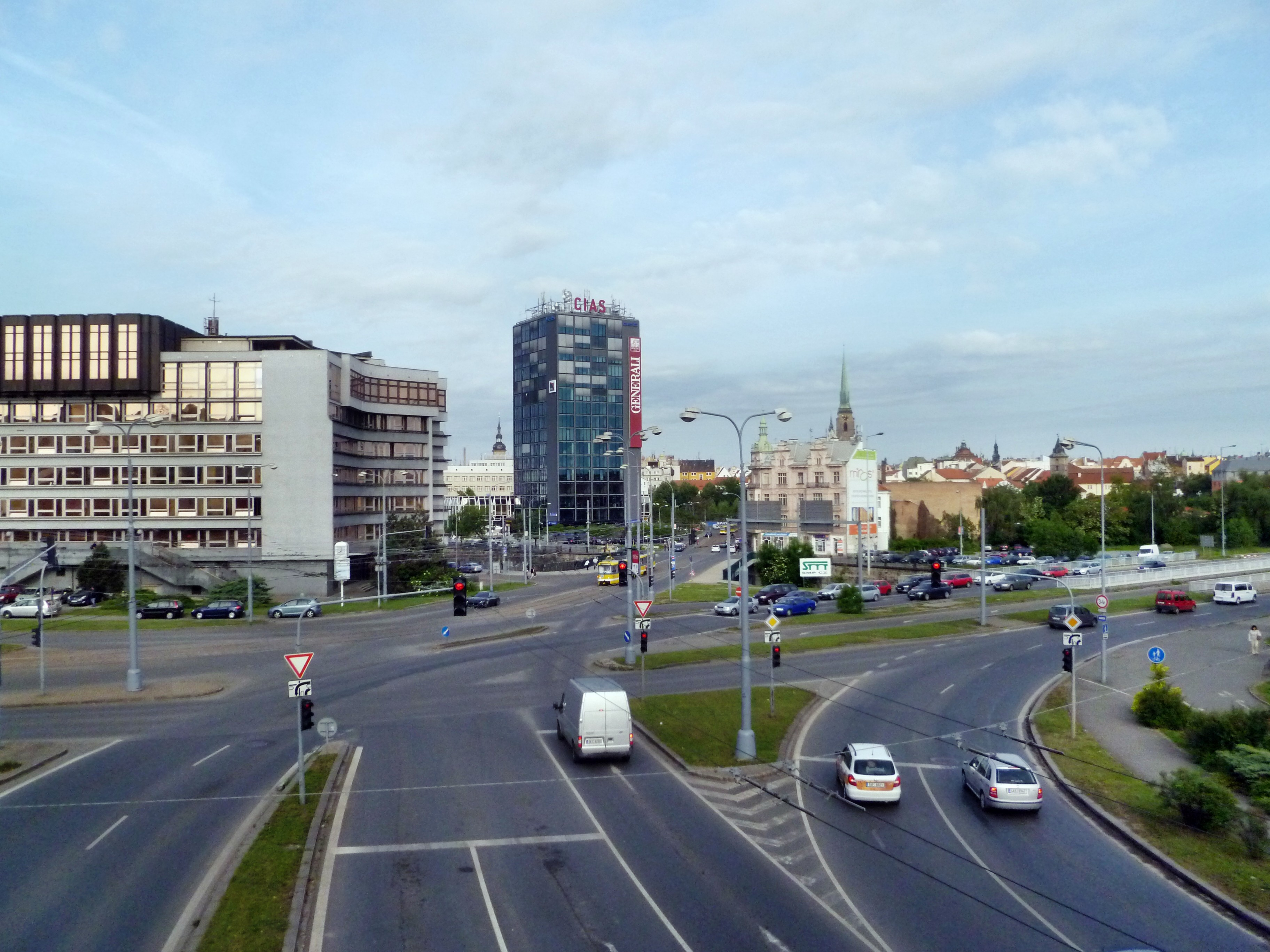 General view on Plzeň, Czech Republic, as seen at the bridge near the Pilsner Urquell Brewery